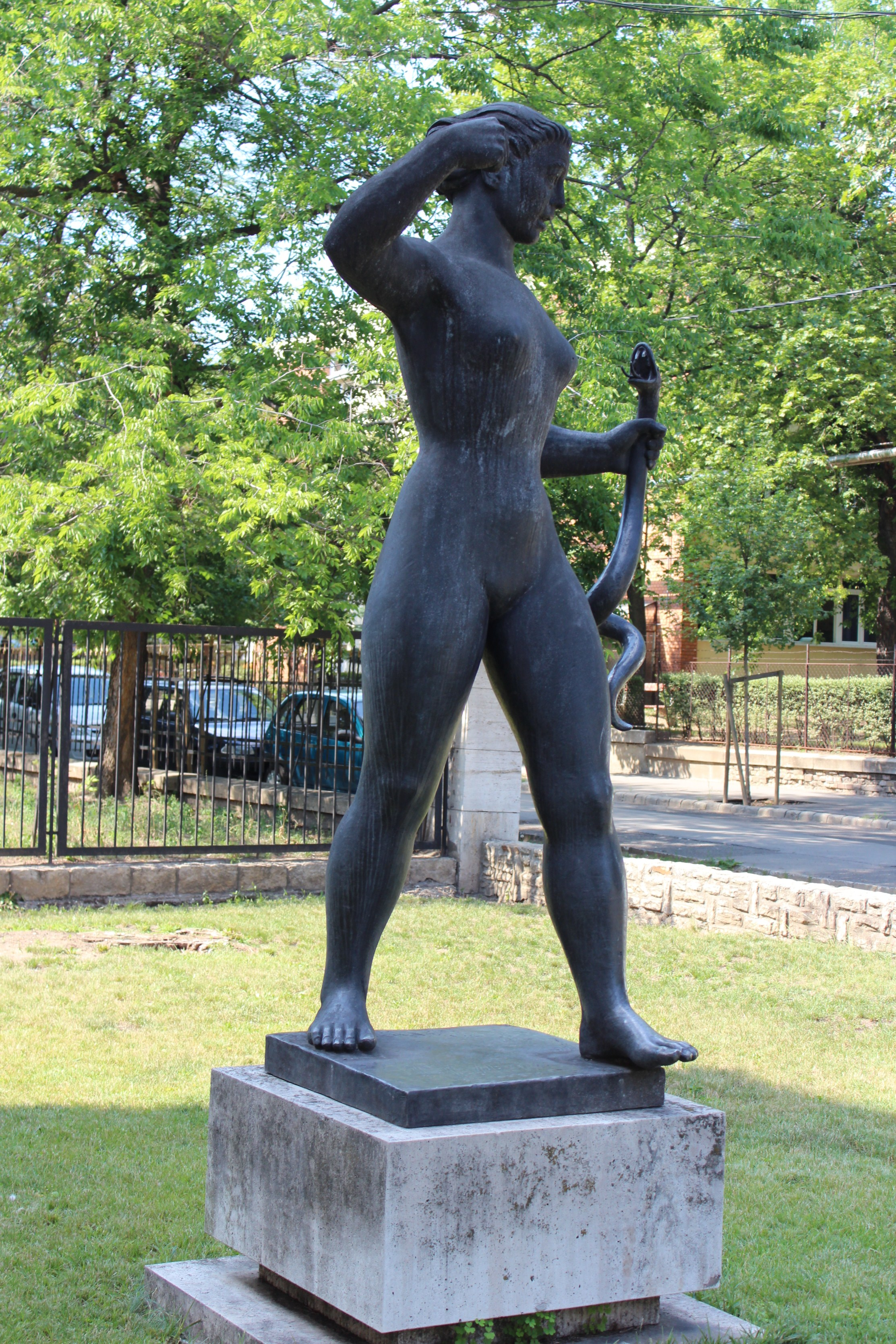 Struggle - statue in Uzsoki street 36., Budapest (made by Sándor Mikus, 1972.)